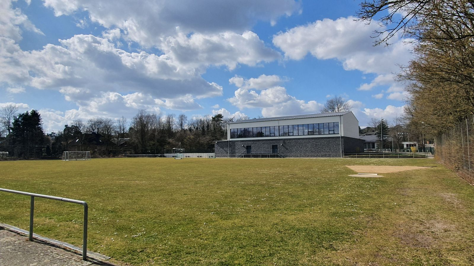 Soccerfield and sportshall Holm-Seppensen